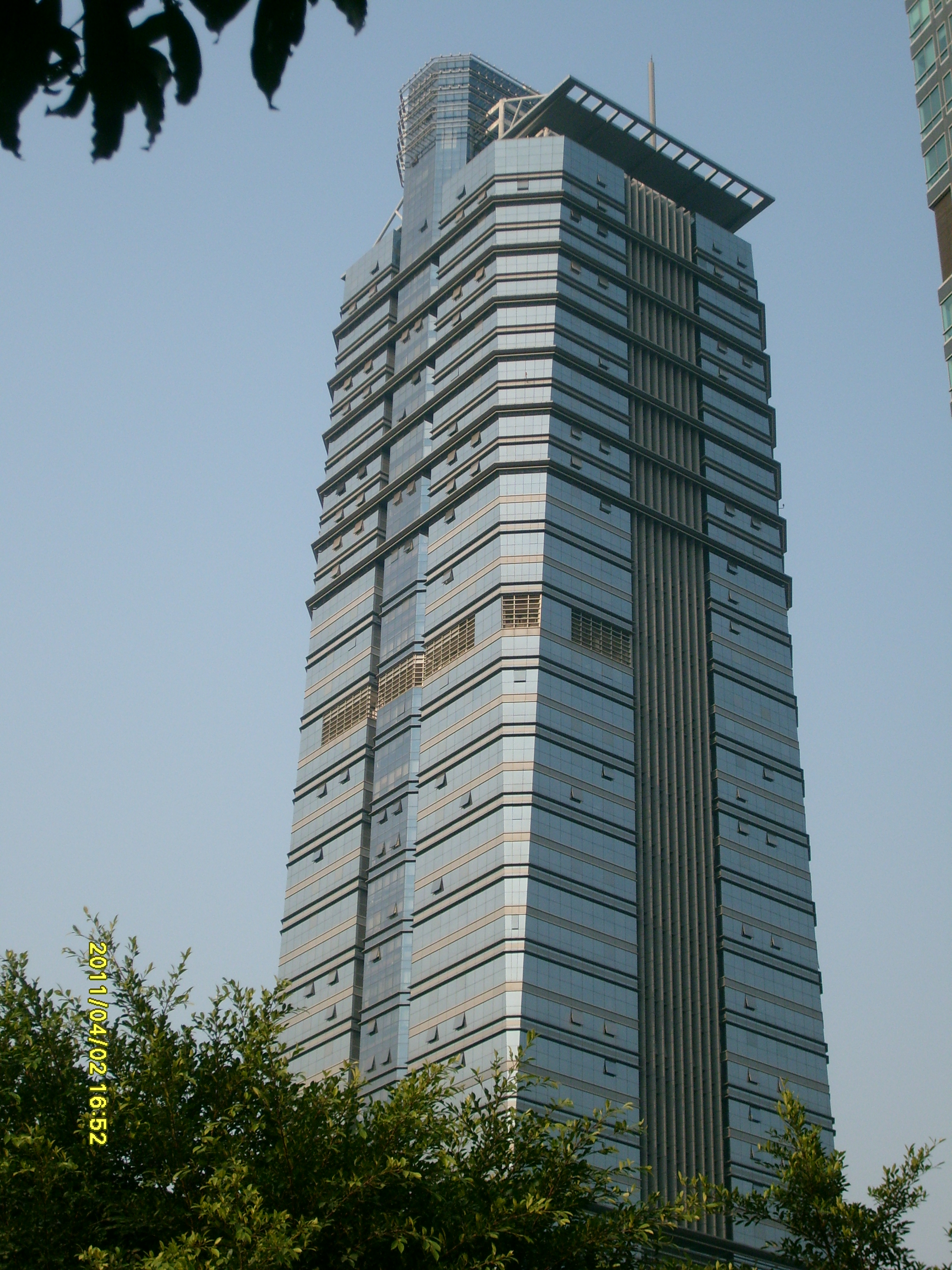 the Jiangsu Tower in Futian District,Shenzhen